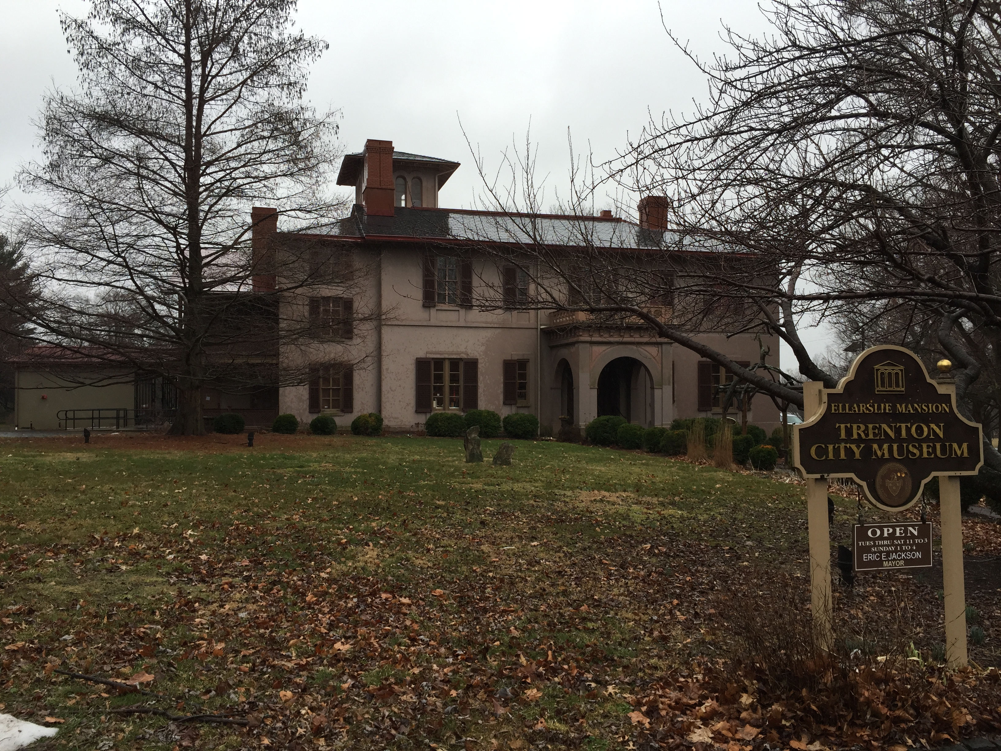 The Ellarslie Mansion, Trenton's City Museum, within Cadwalader Park in Trenton, New Jersey